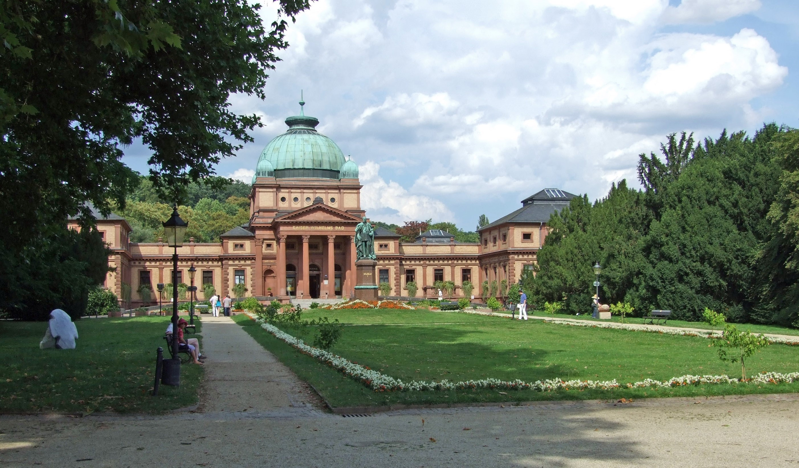 The “Kaiser Wilhelms Bad” in the "Kurpark" of Bad Homburg, Hesse, Germany